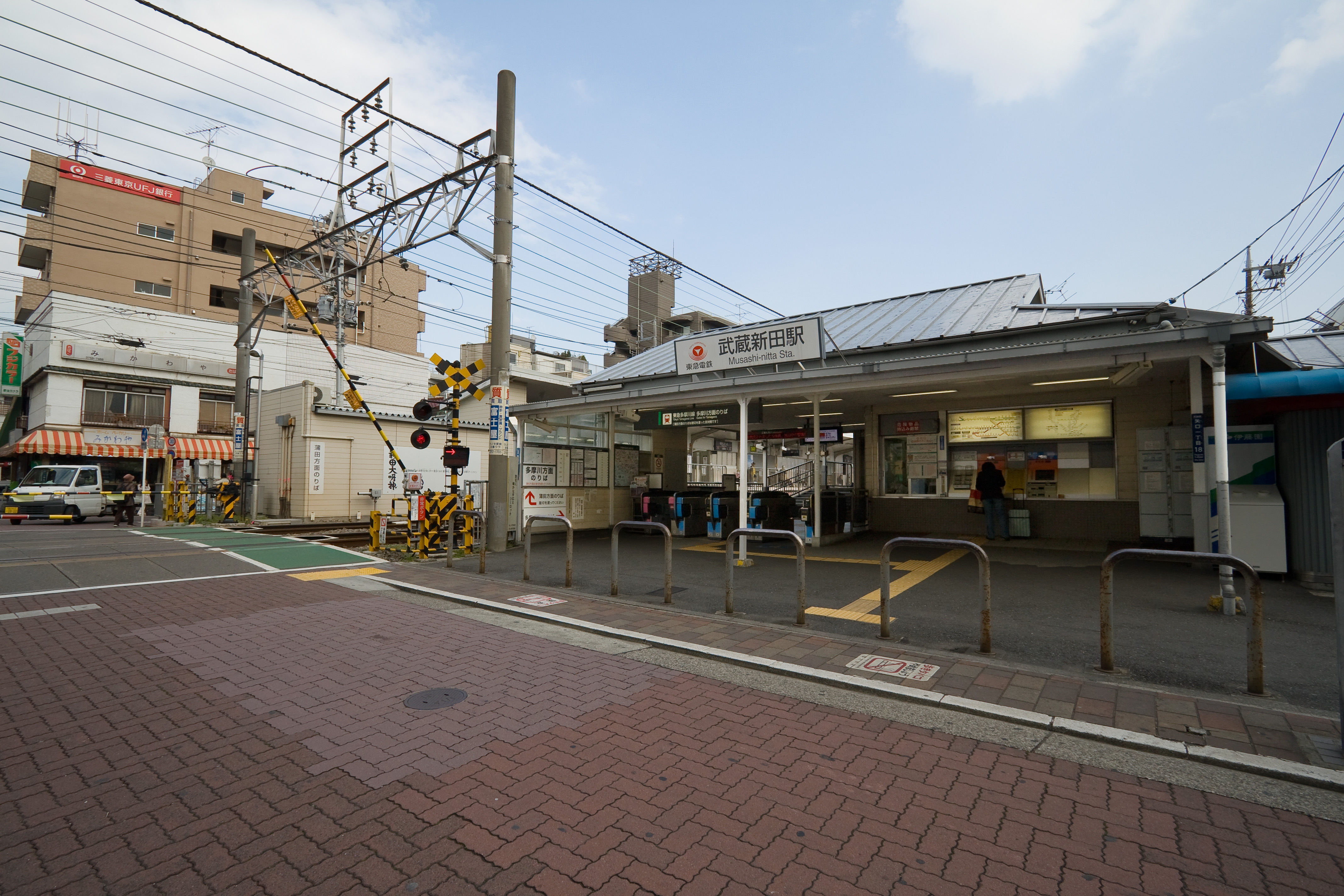 Tokyu Musashi-nitta Station